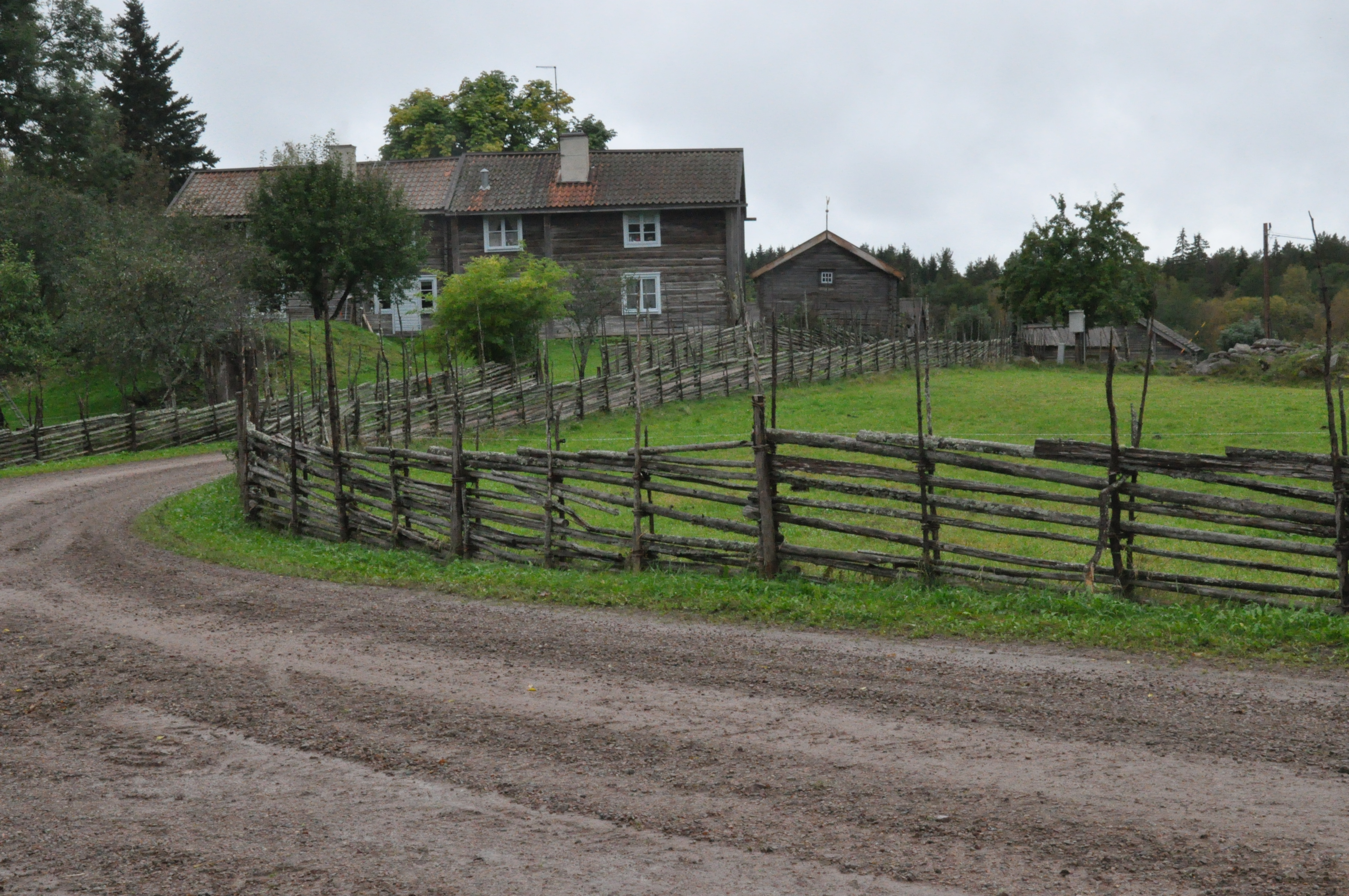 Smedstorps dubbelgård (Smedstorp twin farm), a Swedish heritage area (kultyurreservat), Ydre, Östergötland.